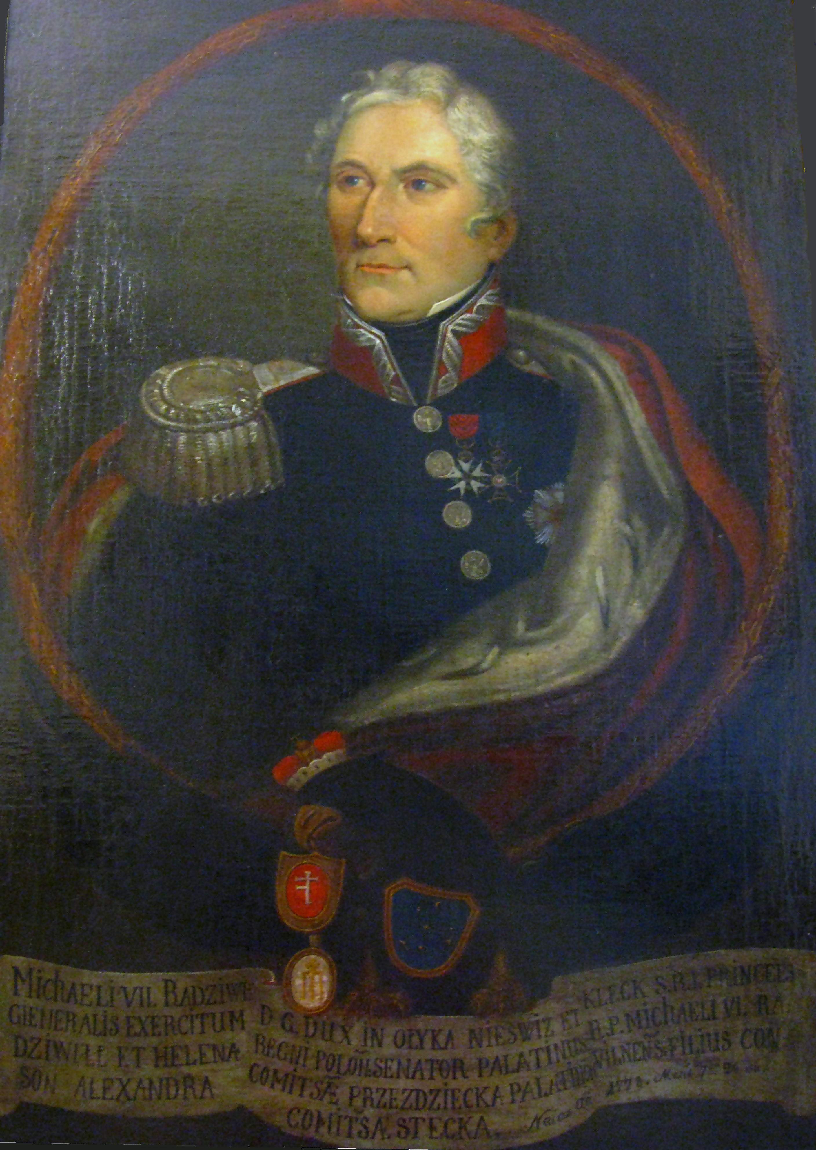 Michał Gedeon Radziwiłł